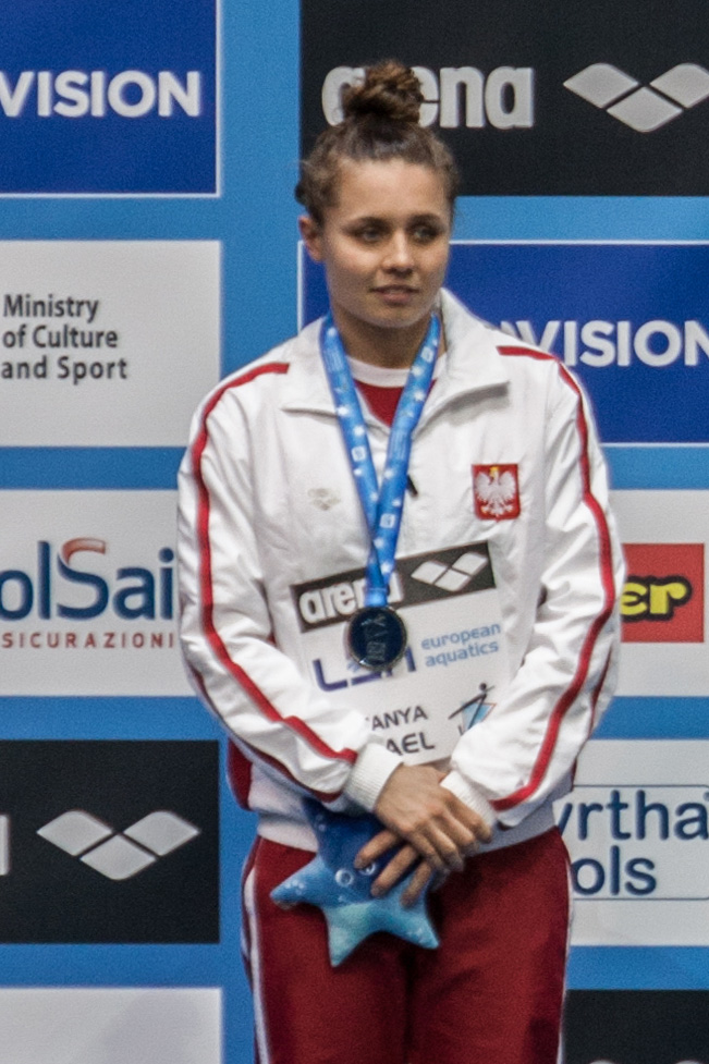 Swimmer Alicja Tchorz wearing the silver medal she won at the 2015 European Short Course Swimming Championships in Netanya